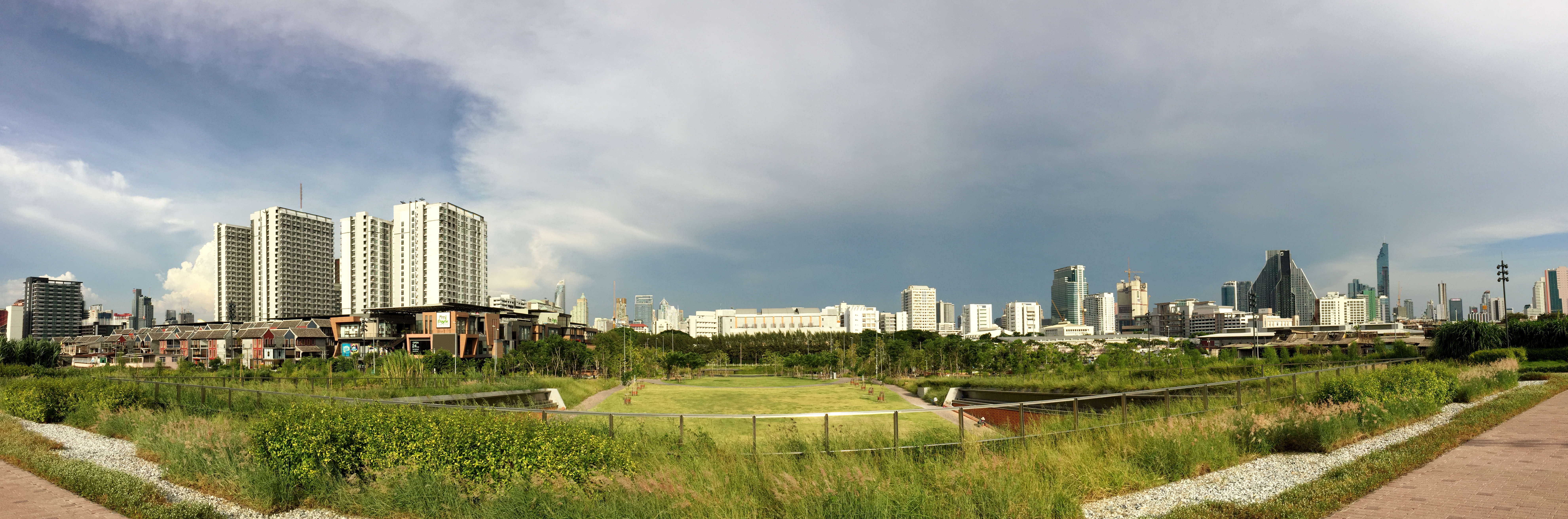 The green roof of Chulalongkorn University Centenary Park and Bangkok skyline.